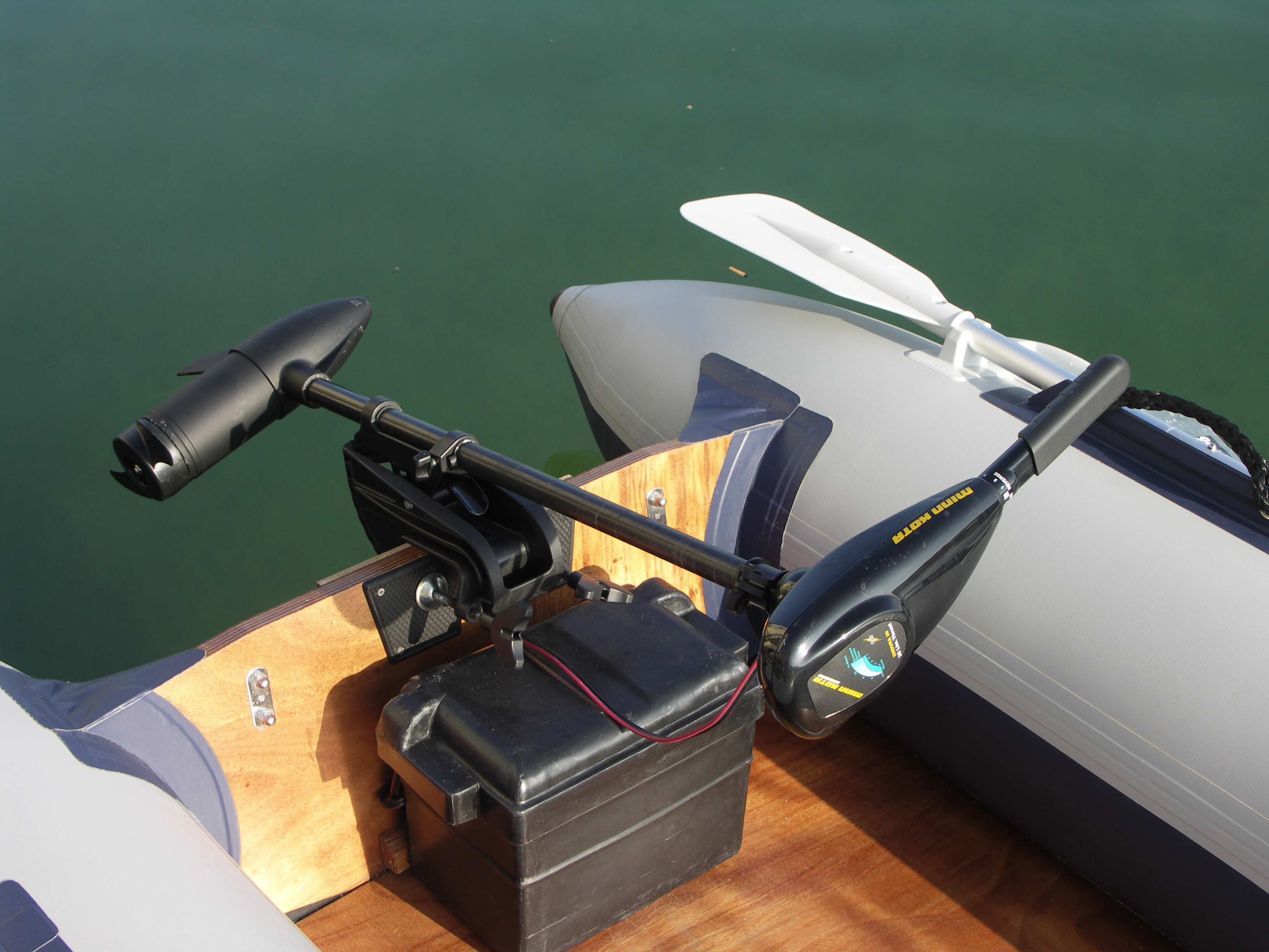 A 12Volt, 30 pound thrust Minn Kota Endura 30 electric trolling outboard motor mounted on a 8 foot inflatable.